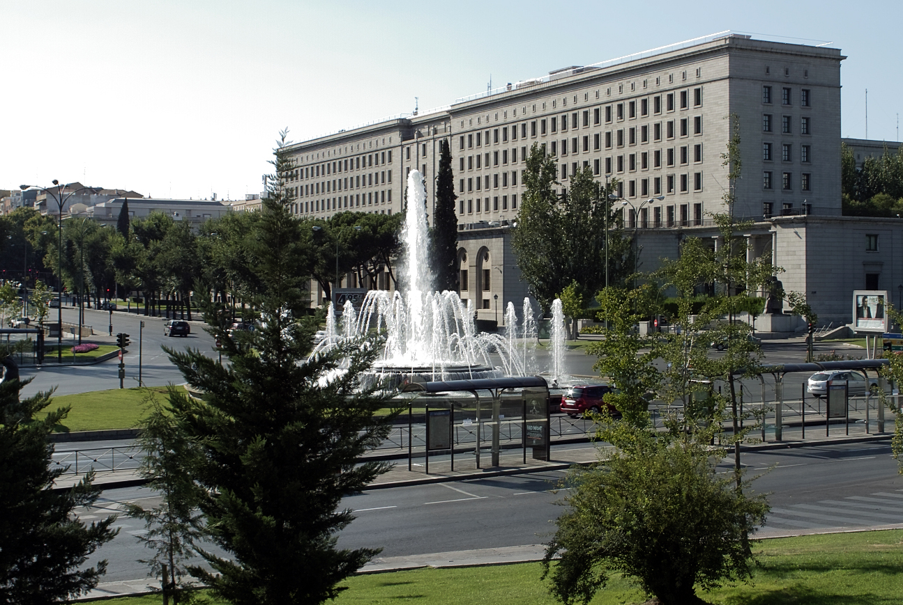 South wing of Nuevos Ministerios in Madrid (Spain)